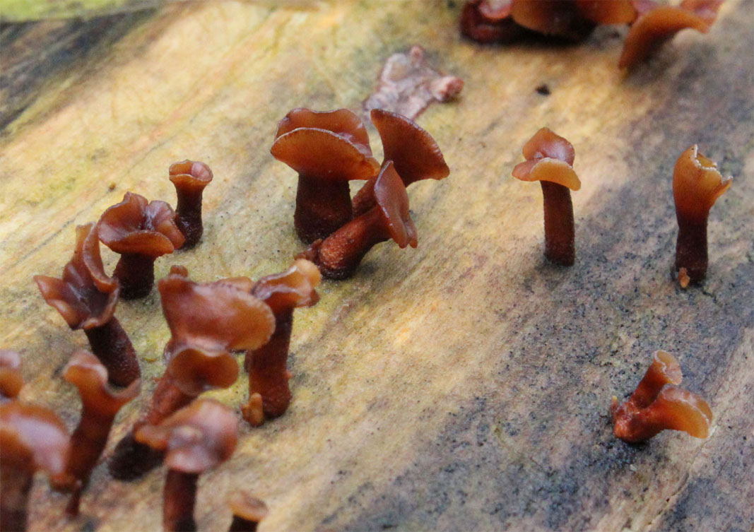 Dacryopinax elegans collected from Vonore, TN